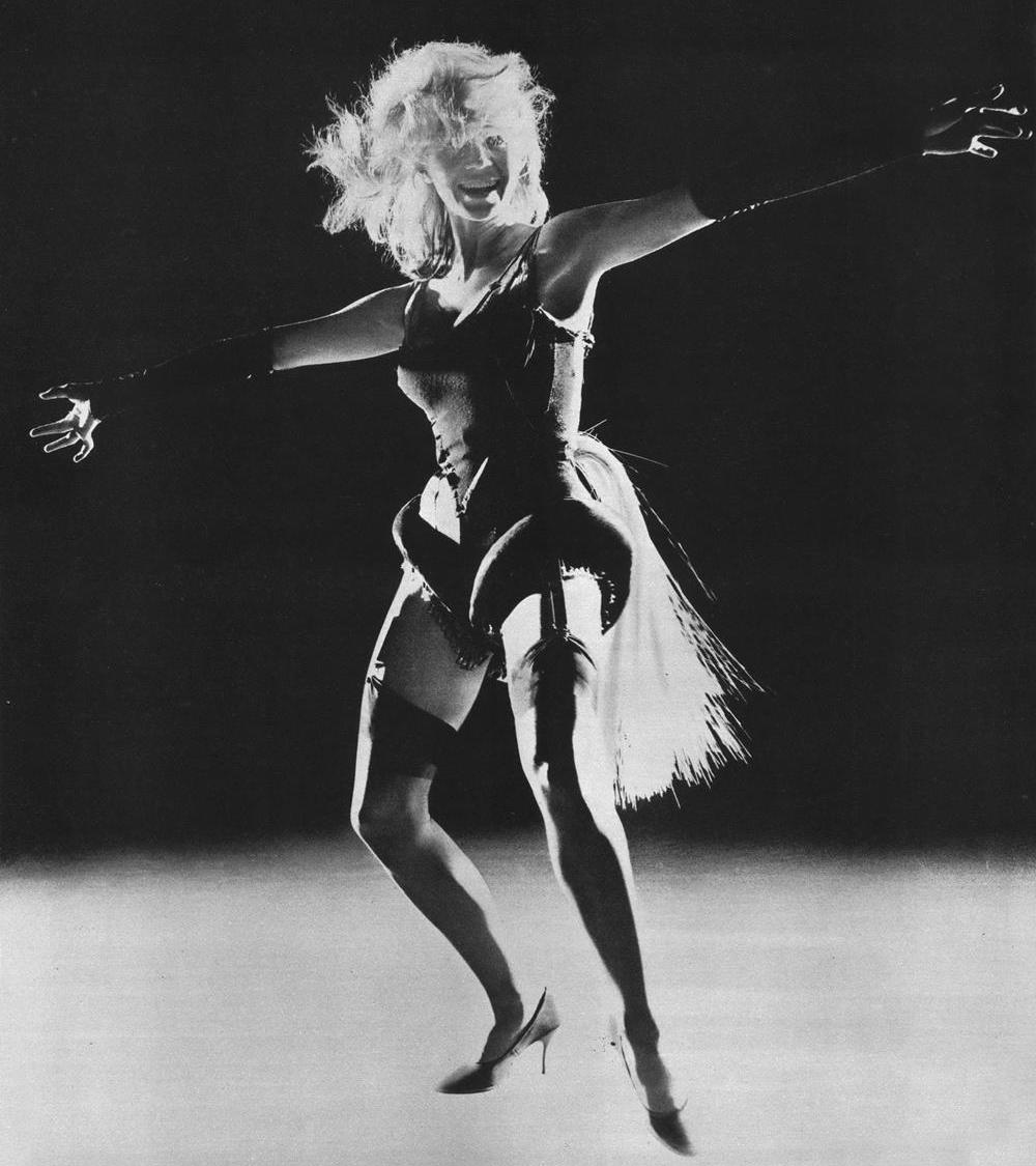 Salome Jens dancing while playing the role of Elyane, a prostitute dressed as a horse, in Jean Genet's The Balcony during a 1960 Off-Broadway production of the play at the Circle in the Square Theatre. This photo was taken by Dennis Stock for the story "Salome Jens: The Queen of Off Broadway" in Esquire s February 1961 issue.